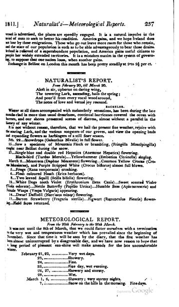 As file